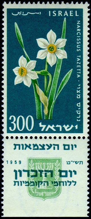 Eleventh Independence Day stamp - 300 mil - Narcissus Tazetta. Inscription on tab: "The Eleventh Independence Day", "Memorial Day for the Fighters for Independence"